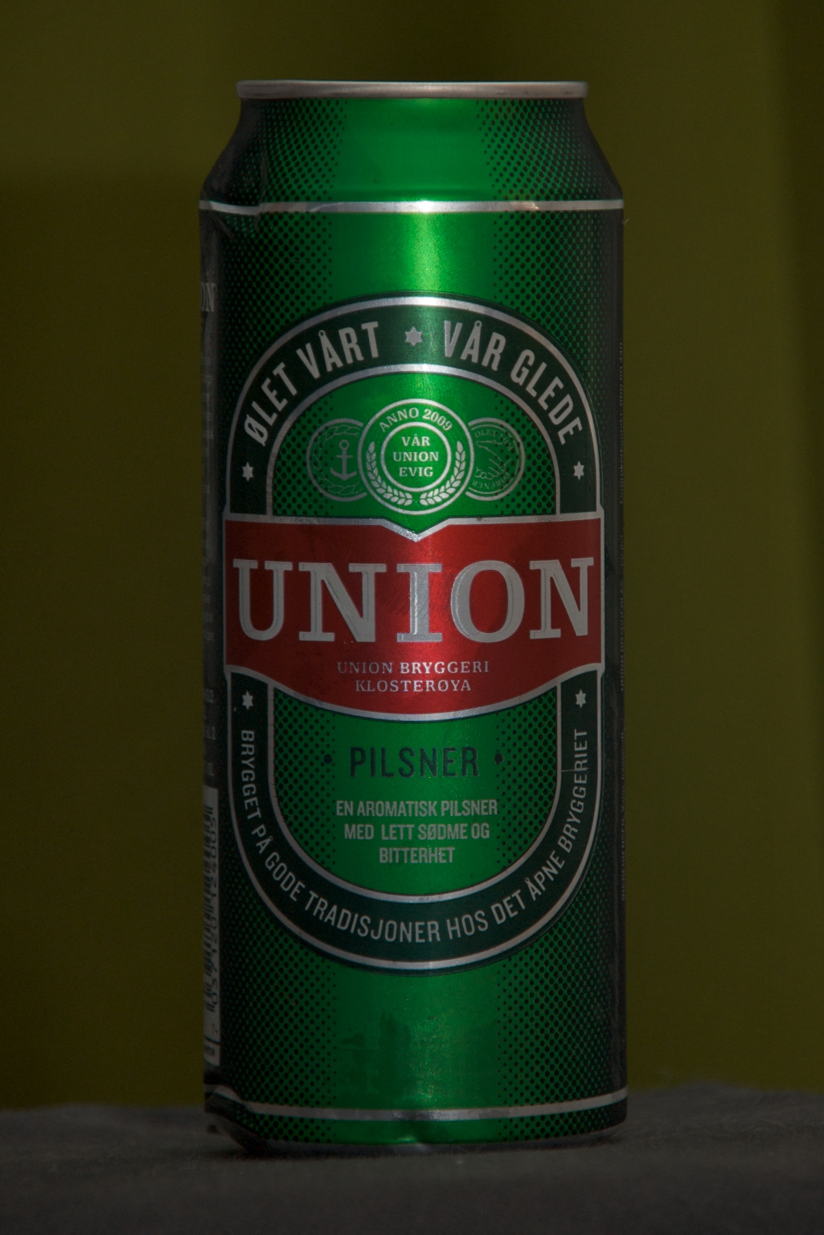 Can of beer from the Union brewery in Skien, Norway.